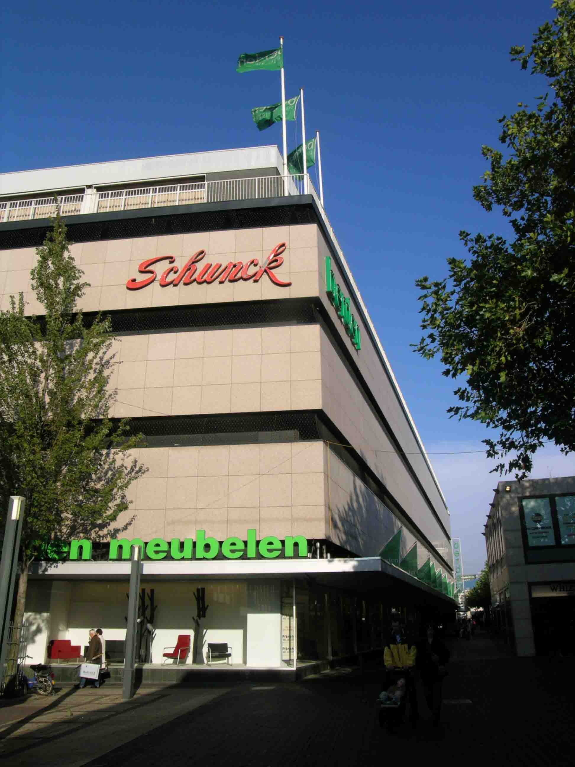 Photograph made and uploaded by Dirk van der Made